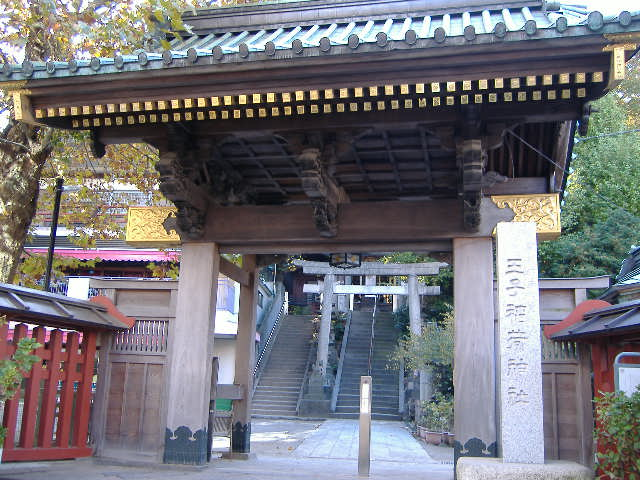 Ōji Inari Shrine